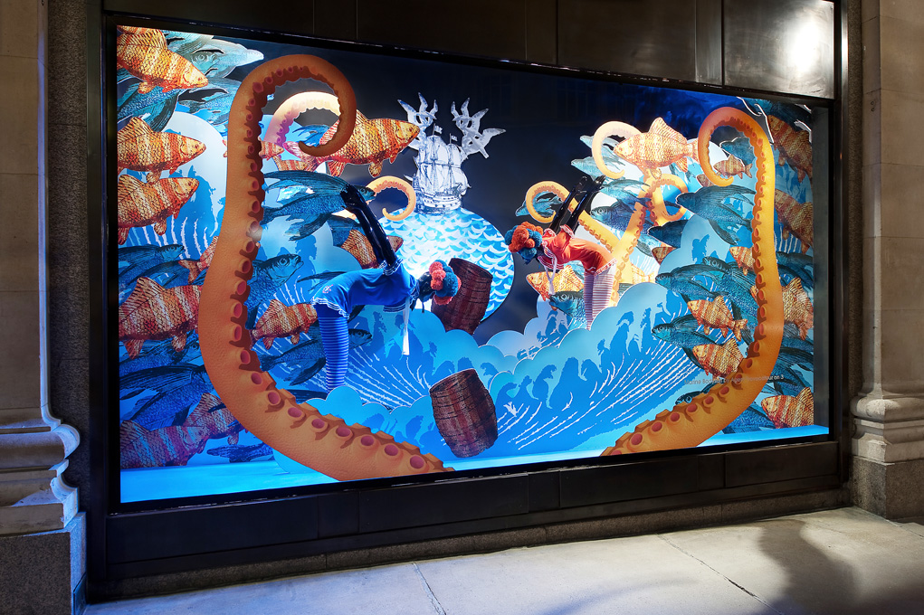 image of selfridges famous window schemes, photographed in 2009 by Andrew Meredith